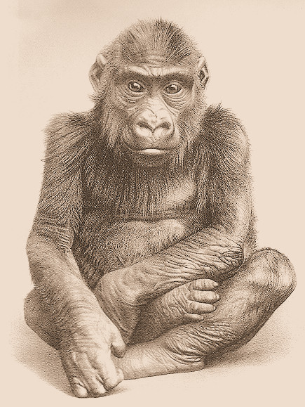 Photo of M'Pungu, a young Gorilla boy, who lived 1876/77 in Berlin.